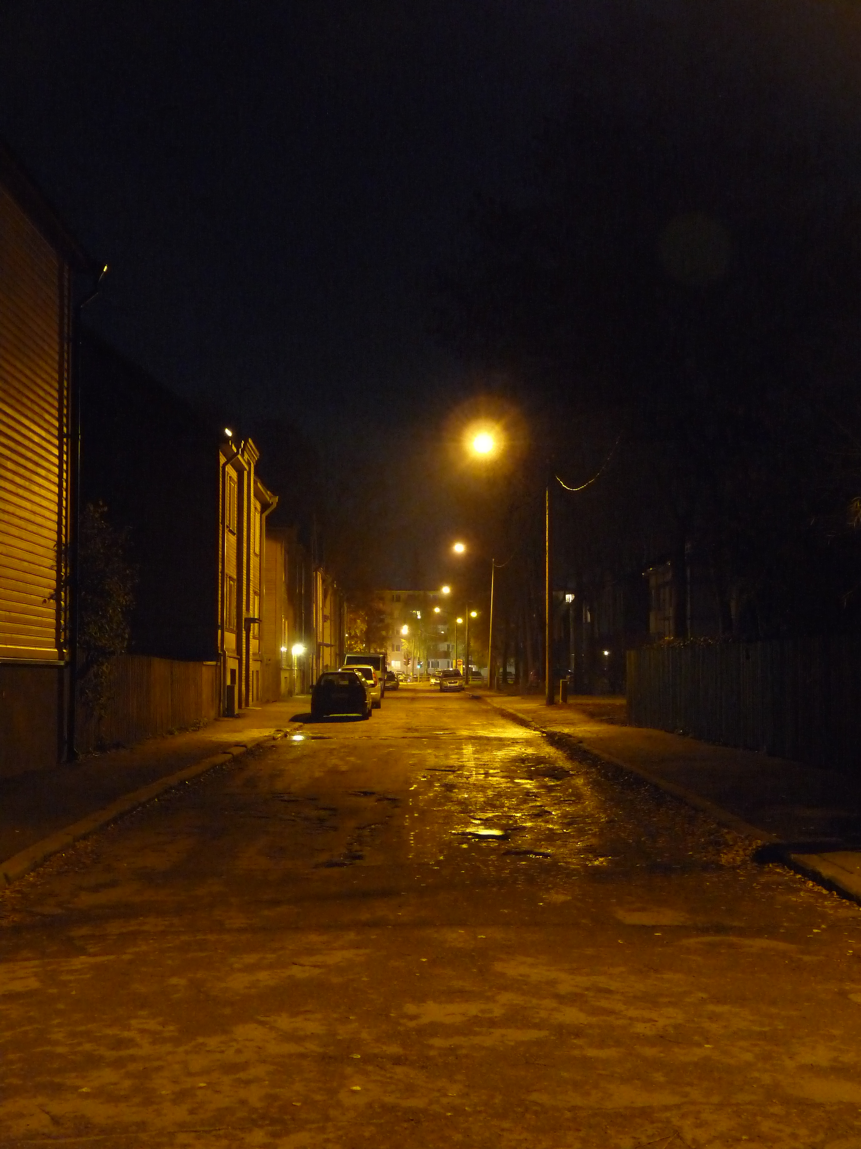 Kannikese street in Tallinn, Estonia.